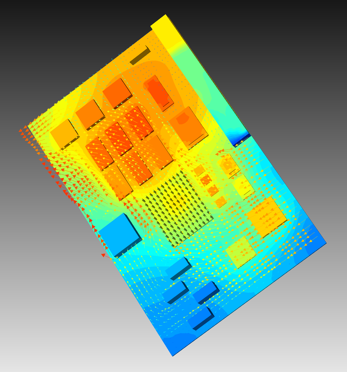 Numerical simulation of the cooling airflow through a hot electronics equipment. The simulation was performed using the CFD software Flotherm.